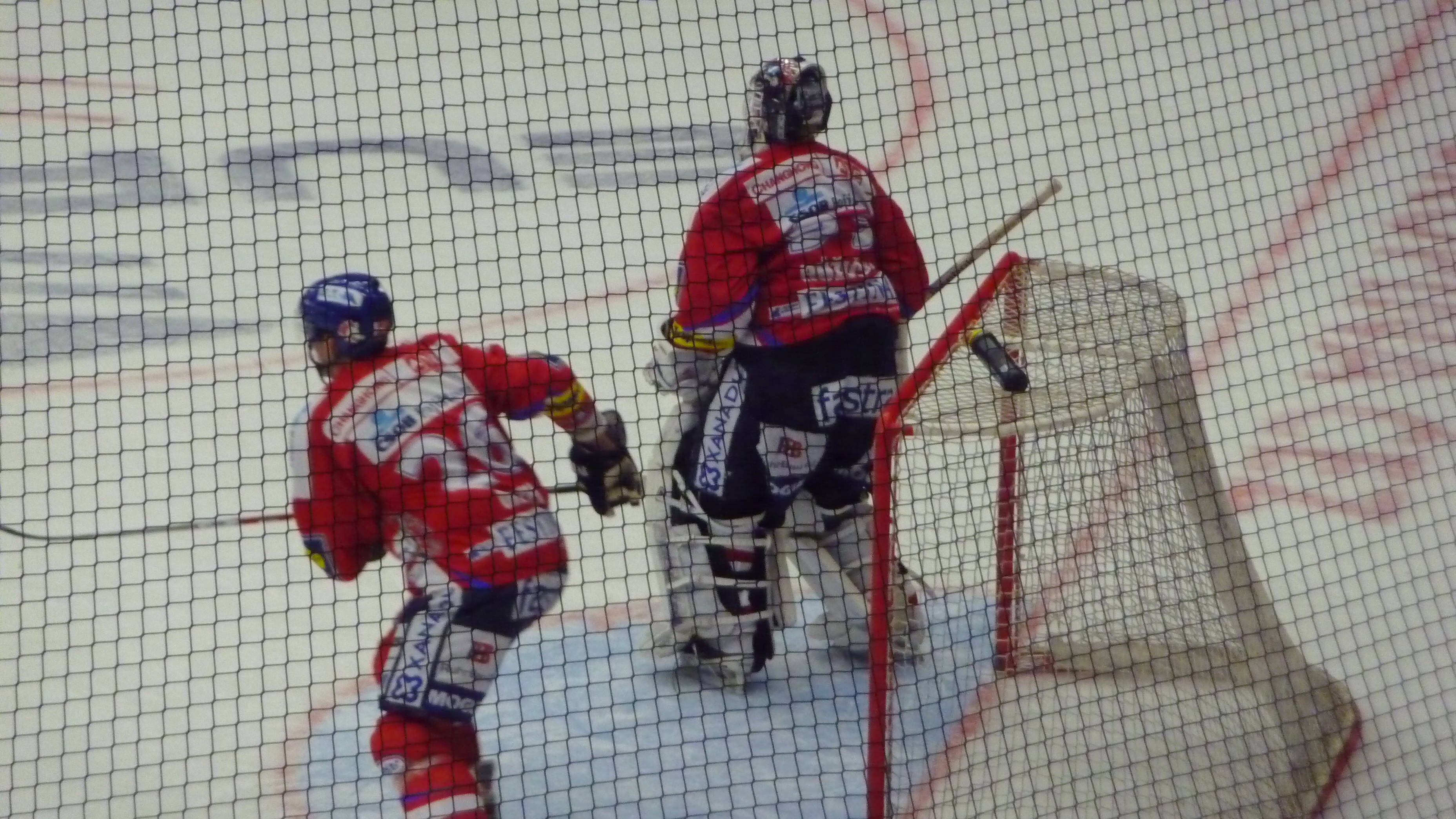 PSG Zlín v HC Eaton Pardubice -10 -5 -3 -2 ◄ ► +2 +3 +5 +10